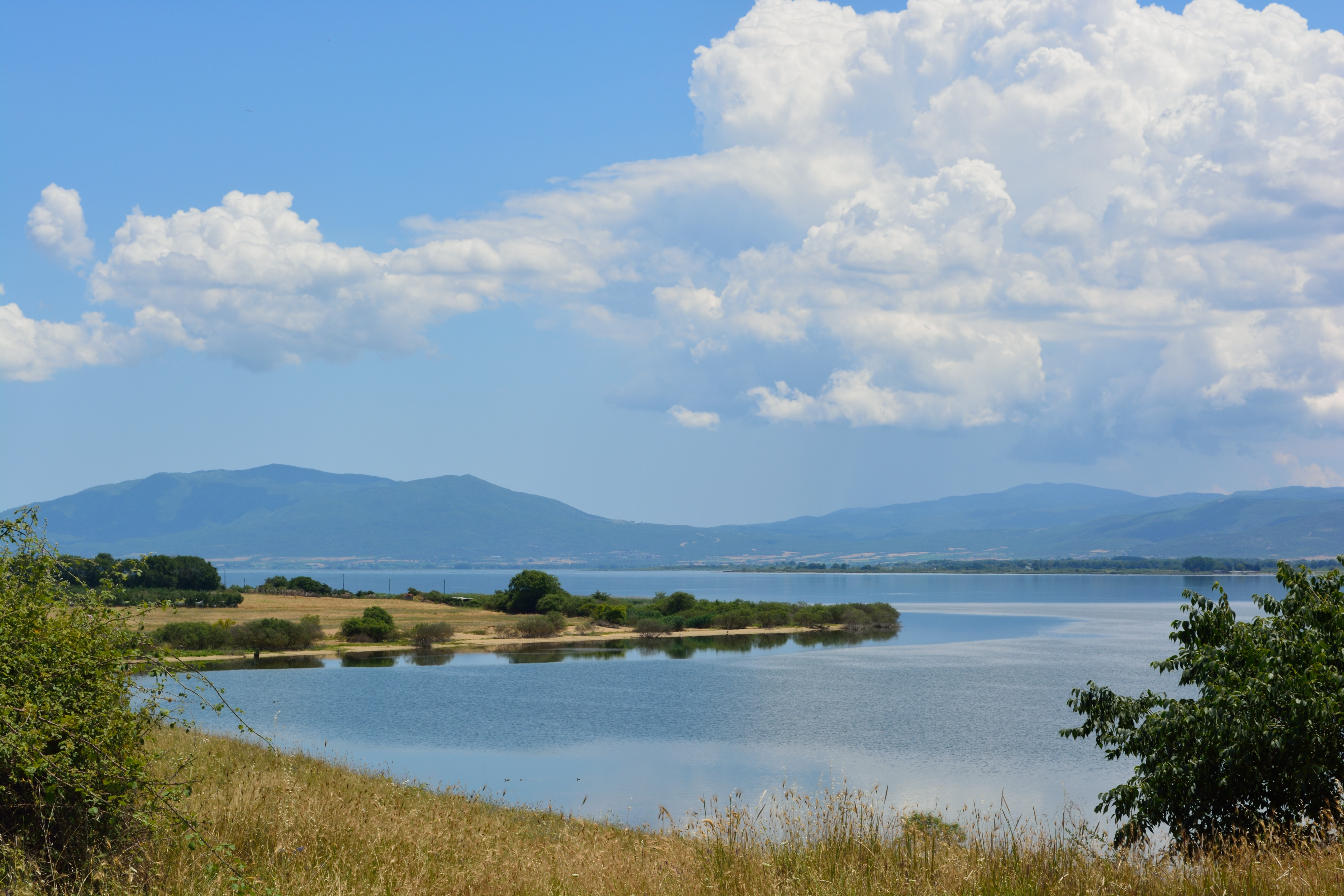 This is a photography of Natura 2000 protected area with ID GR1220009